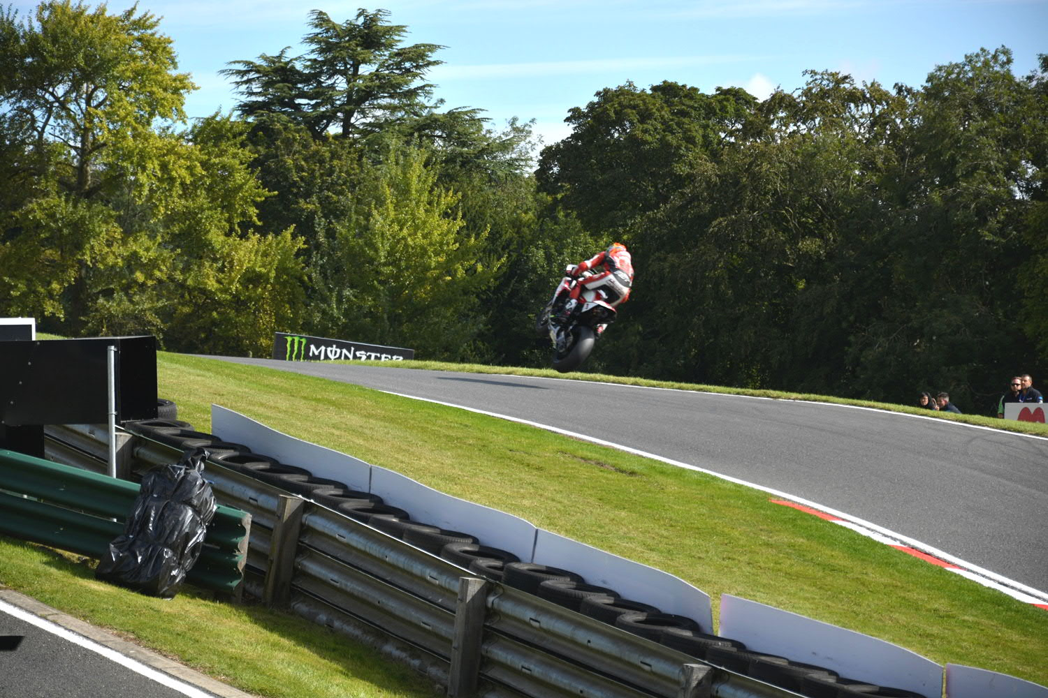 BSB rider Josh Brookes aviating at The Mountain, Cadwell in 2014